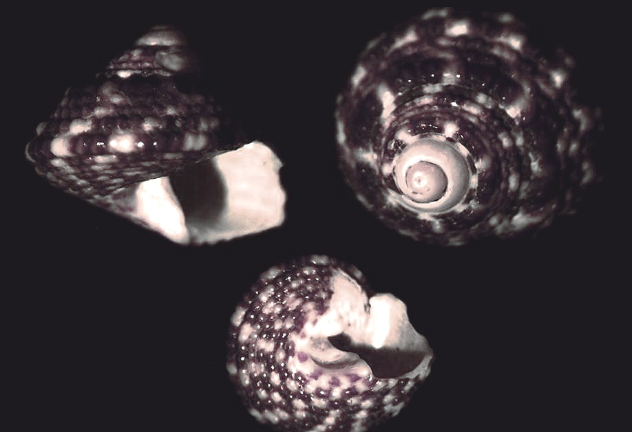 Clanculus philippi (Koch, F.C.L. in Philippi, R.A., 1843); Southern Australia